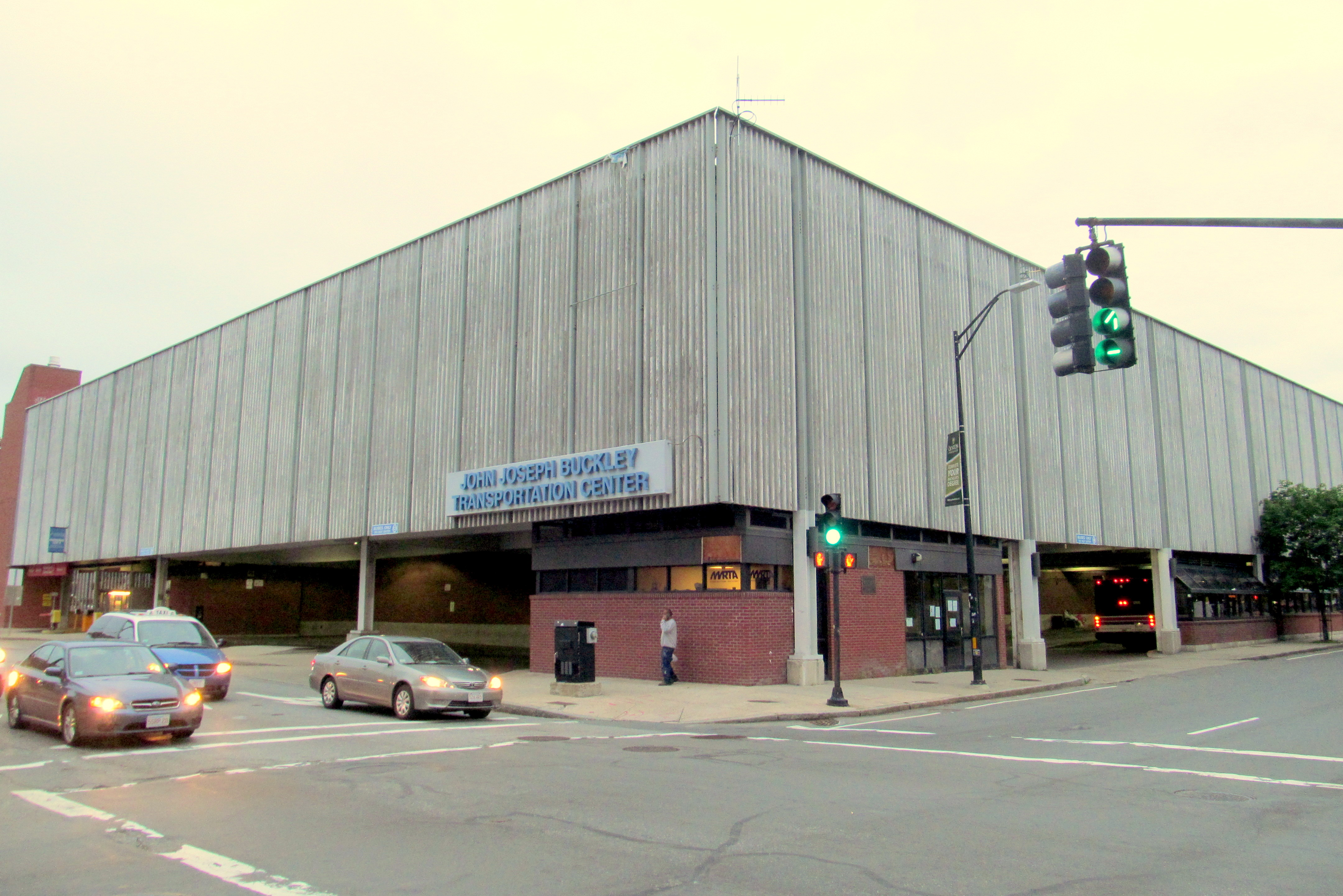 Buckley Transportation Center in Lawrence, Massachusetts in May 2017